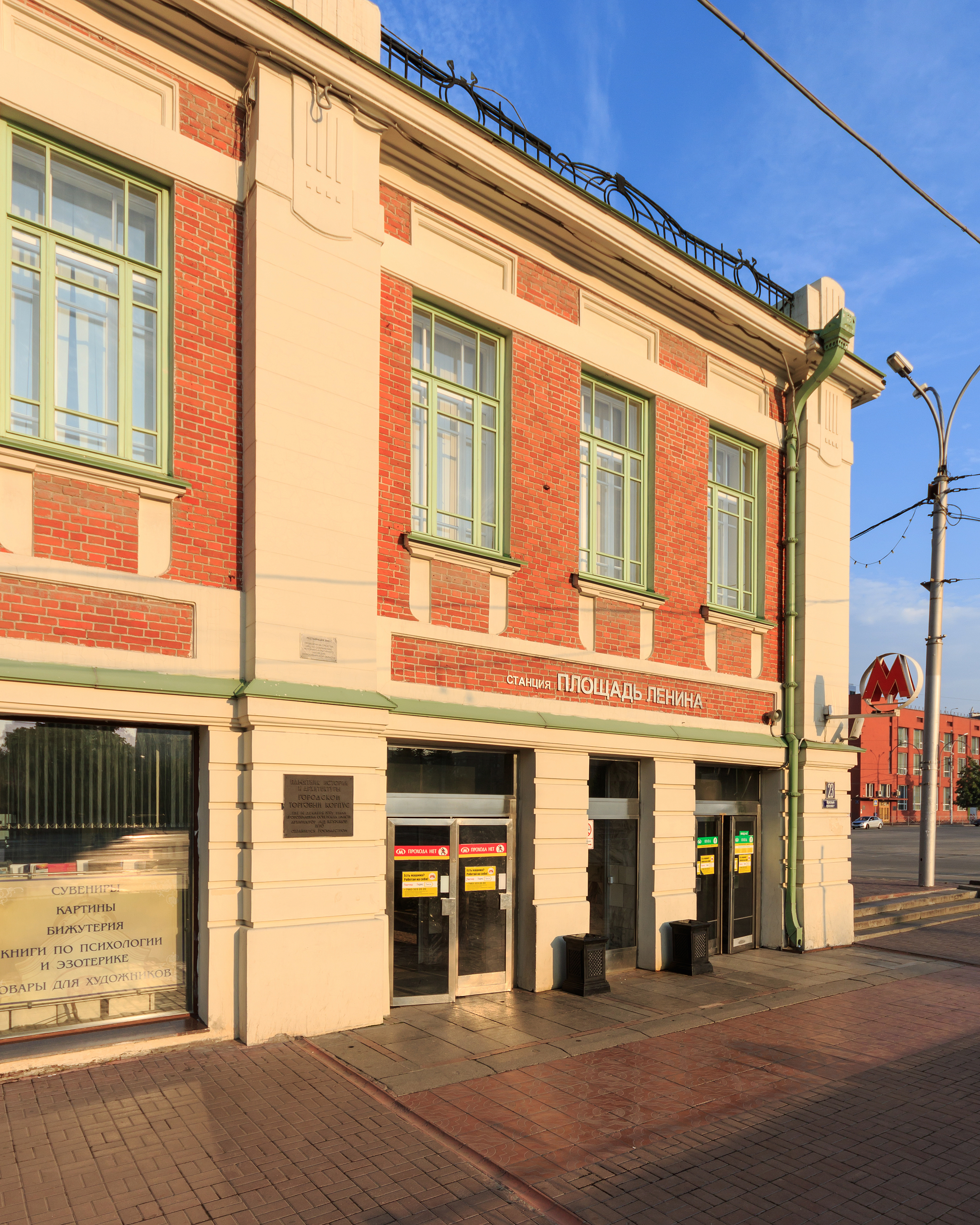 Building of the Trade House (listed) in Novosibirsk, Russia. Detail of right-hand wing of the building with built-in entrance to Ploschad Lenina metro station.